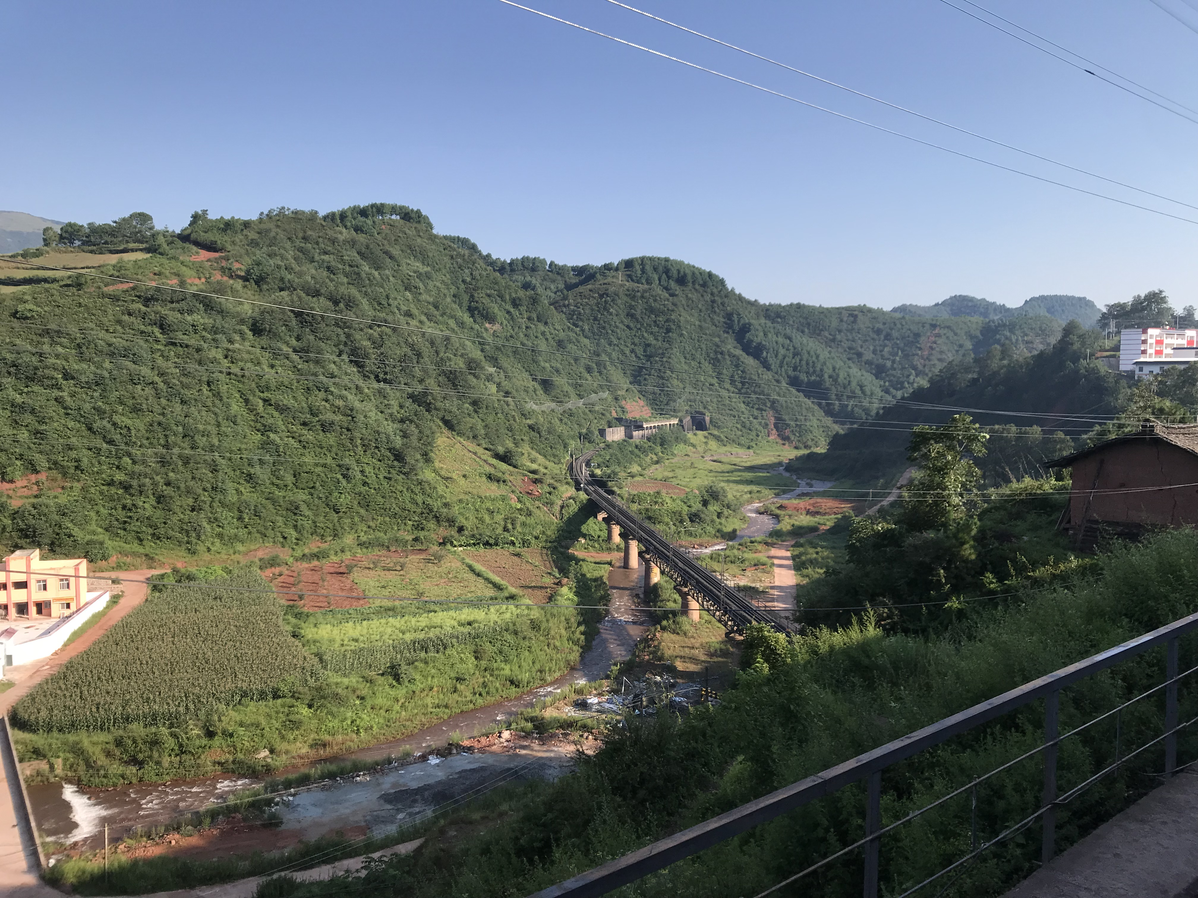 Taken at Lewu Railway Station